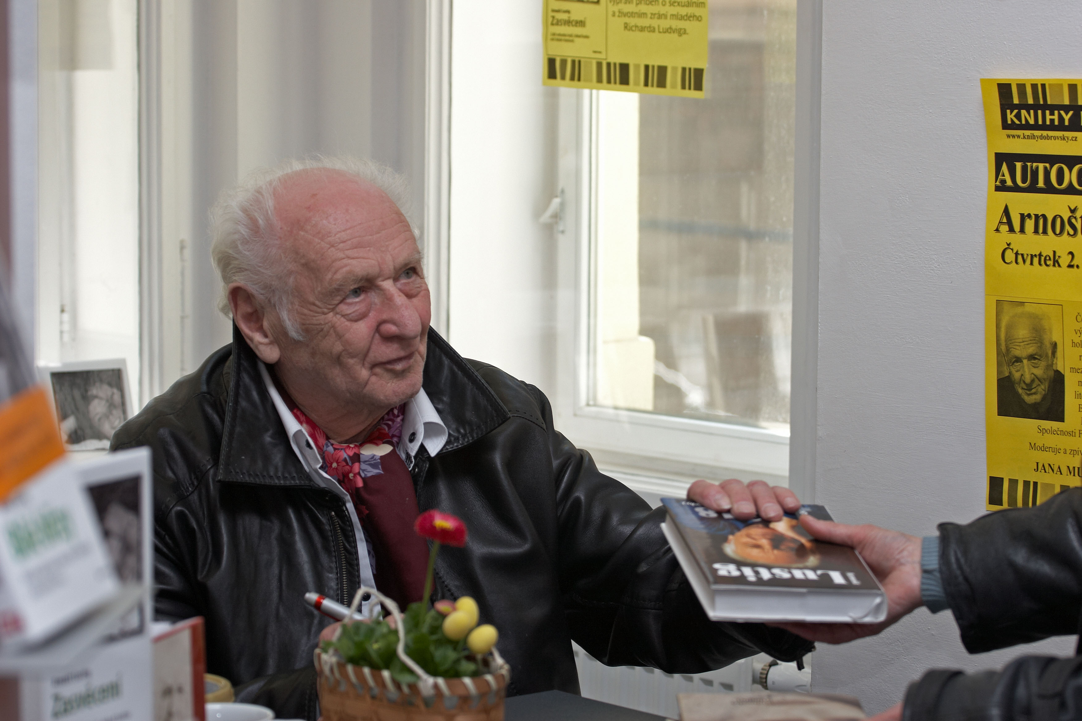 Arnošt Lustig giving autographs in Brno 2. 4. 2009